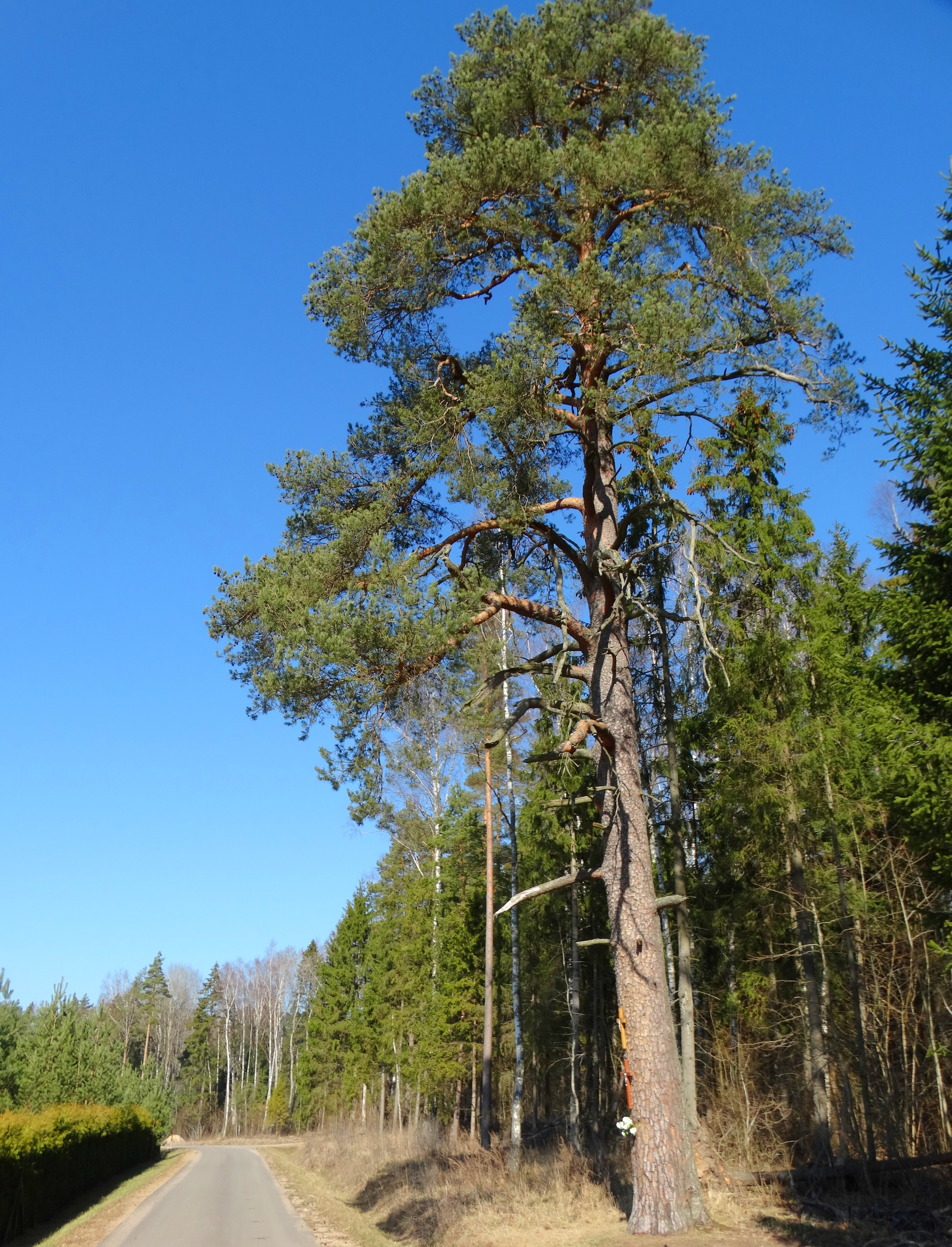 Pine tree, Dirvonai, Šiauliai district, Lithuania